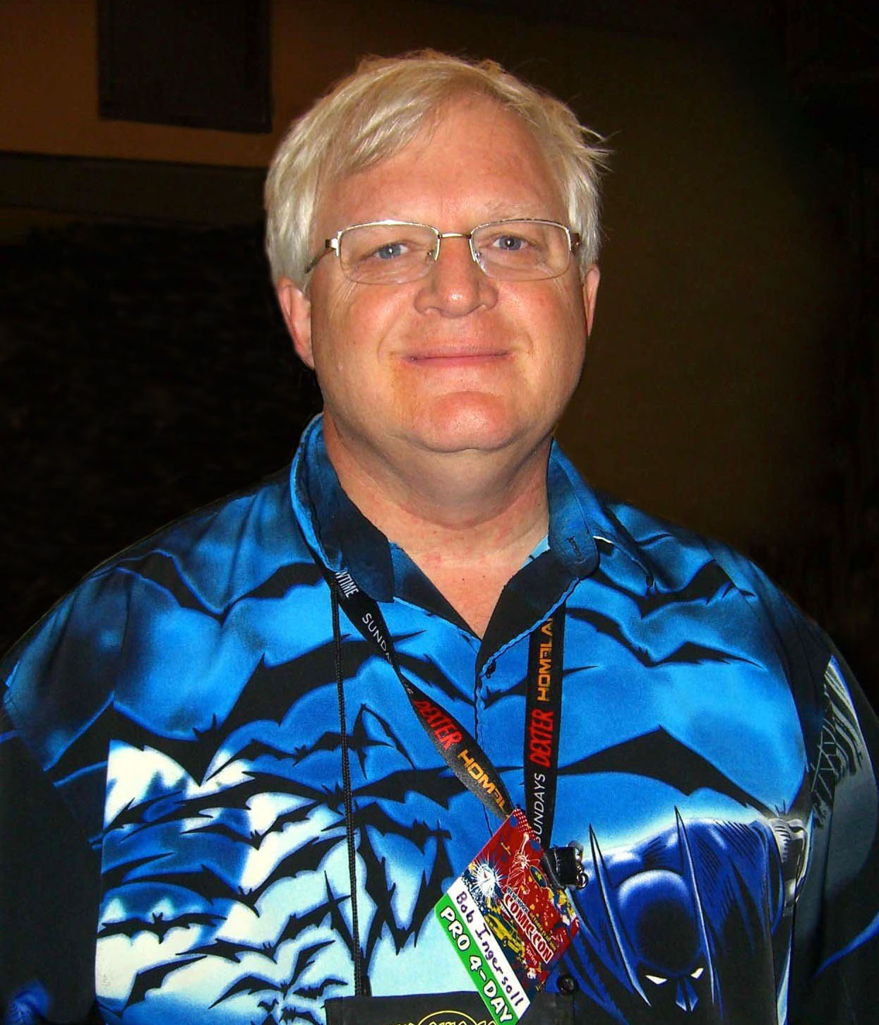 Comics creator and former attorney Bob Ingersoll at the New York Comic Con, October 15, 2011. This photo was created by Luigi Novi. It is not in the public domain, and use of this file outside of the licensing terms is a copyright violation.